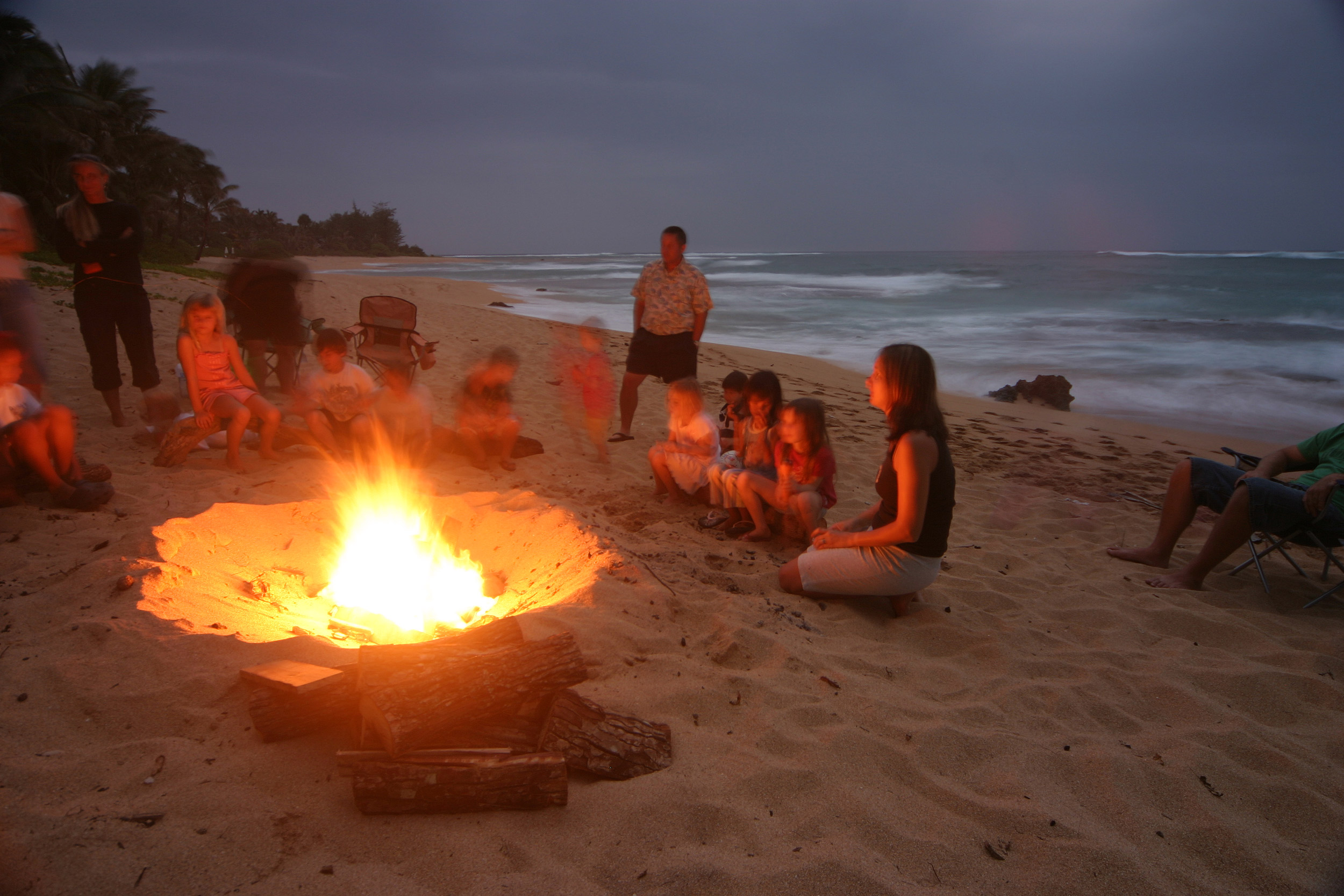 Campfire on Haena Beach adjacent to Camp Naue YMCA